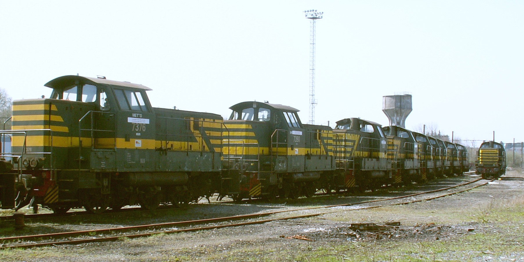 A rake of belgian shunter class 73 at Stockem (Arlon) lokshop, after retirement from commercial duty.